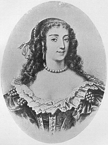 Marie de Rohan-Montbazon Duchess of Chevreuse, Duchess of Luynes